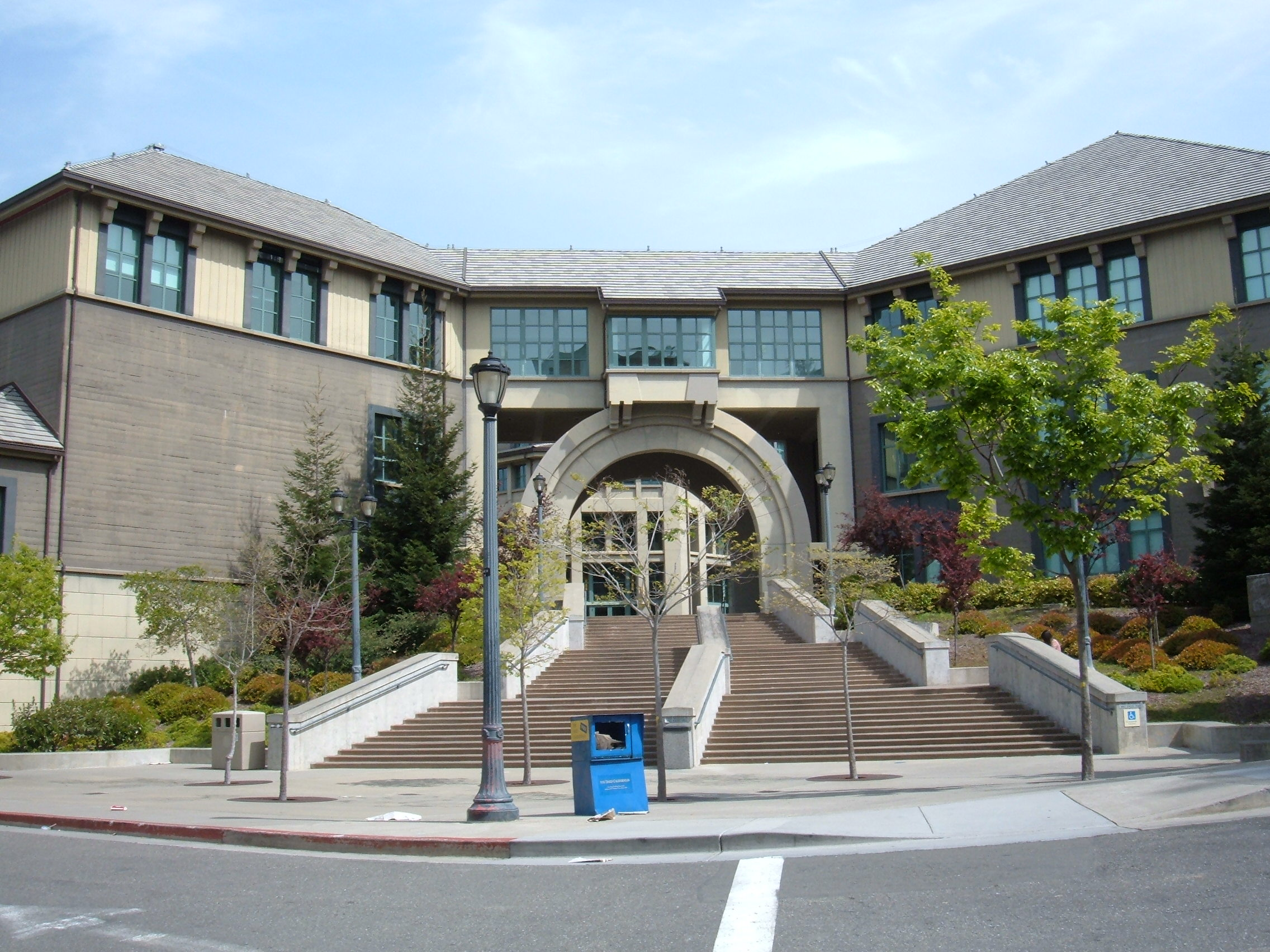 The western entrance to the Haas School of Business on the UC Berkeley campus in Berkeley, California.